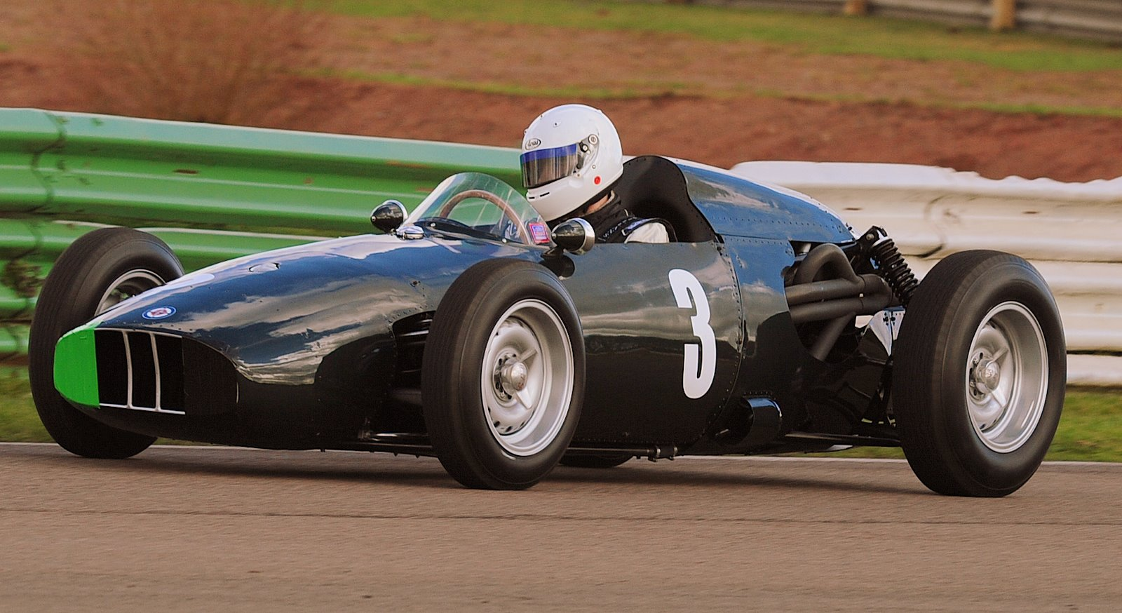 A BRM P48 Formula One car is put through its paces at Mallory Park, March 2009.